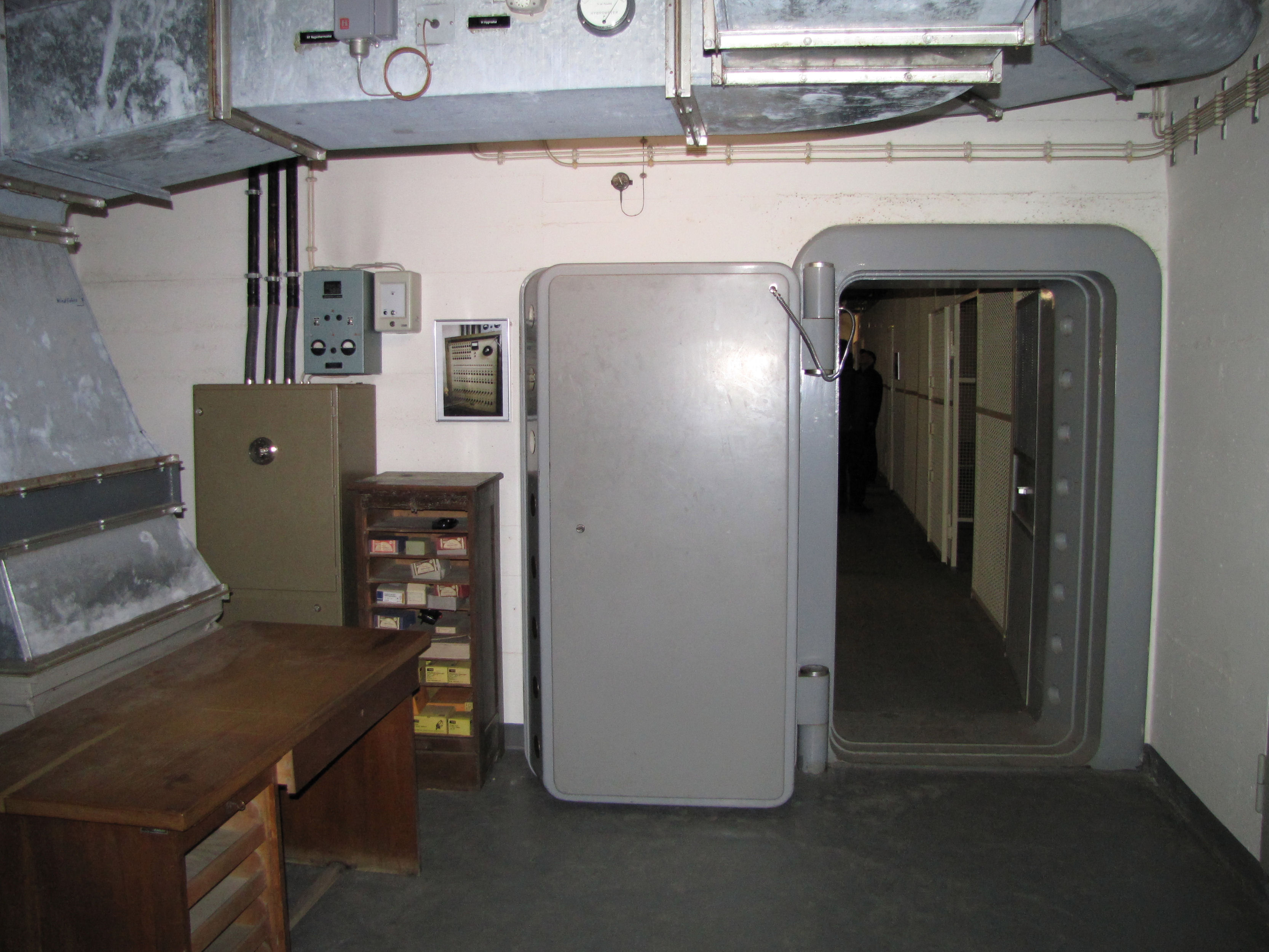 Bunker of the Deutsche Bundesbank in Cochem: Entrance to the big vault.